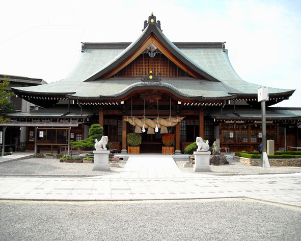 IZUMOTAISYA(OSAKA)